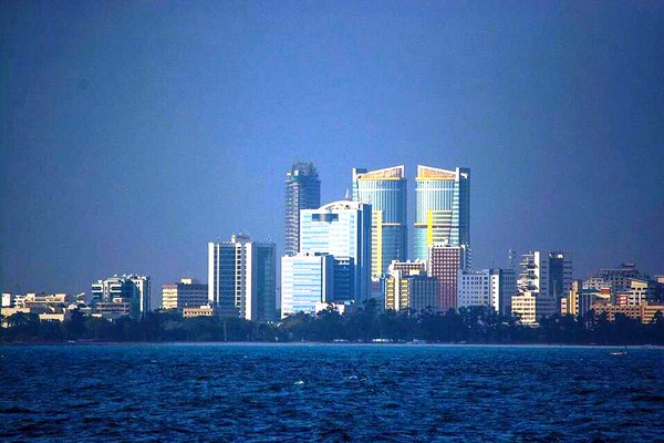 Tanzania Ports Authority (left, tall tower) and the PSPF Twin towers the current tallest buildings in East and Central Africa.